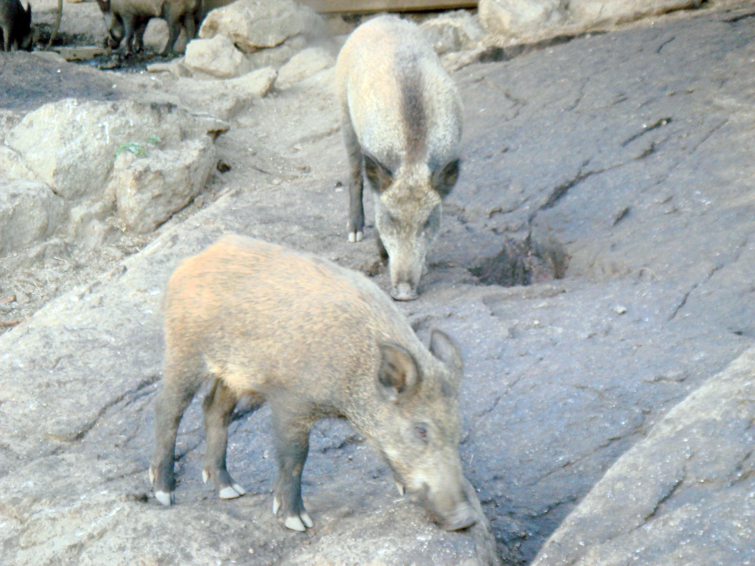 Race of pig from Sardinia. Picture by Stefano Bolognini.